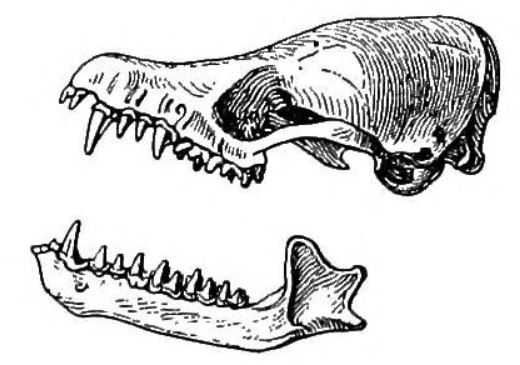 Skull drawing of Myotis vivesi, described in text as Pizonyx vivesi